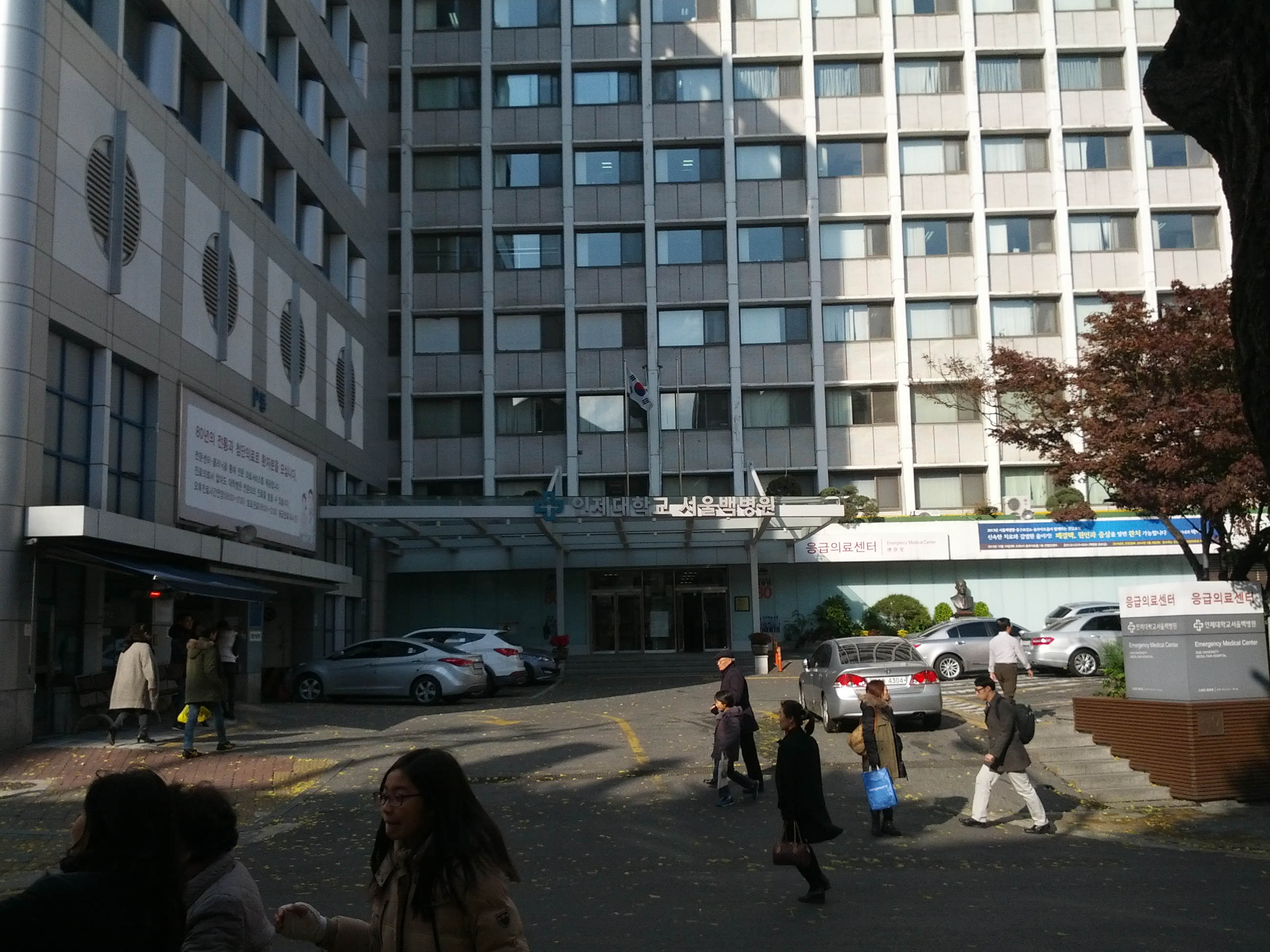 Inje University Seoul Paik Hospital, Myeongdong, Jung-gu, Seoul